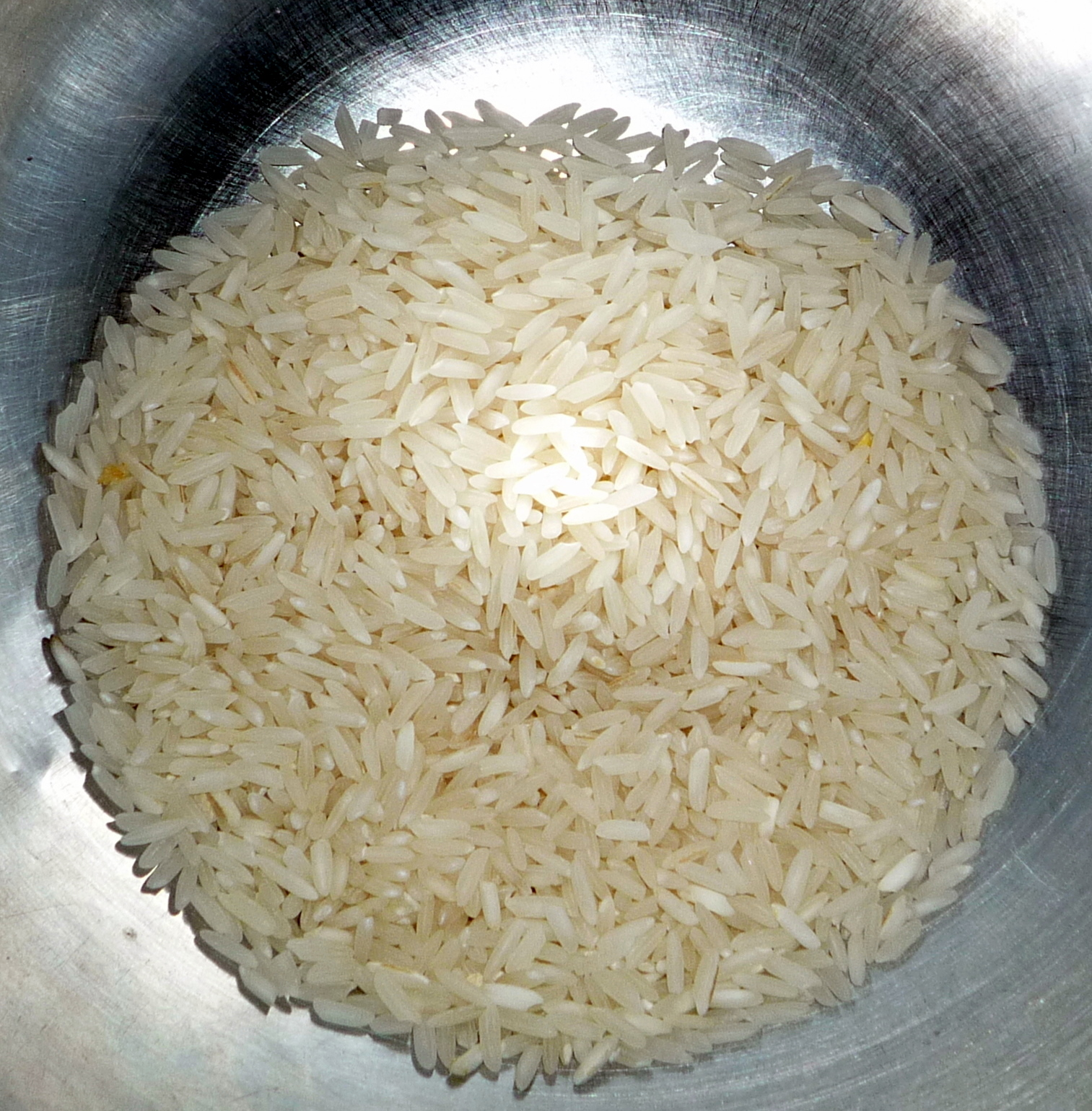 A bowl containing rice grains (Long).